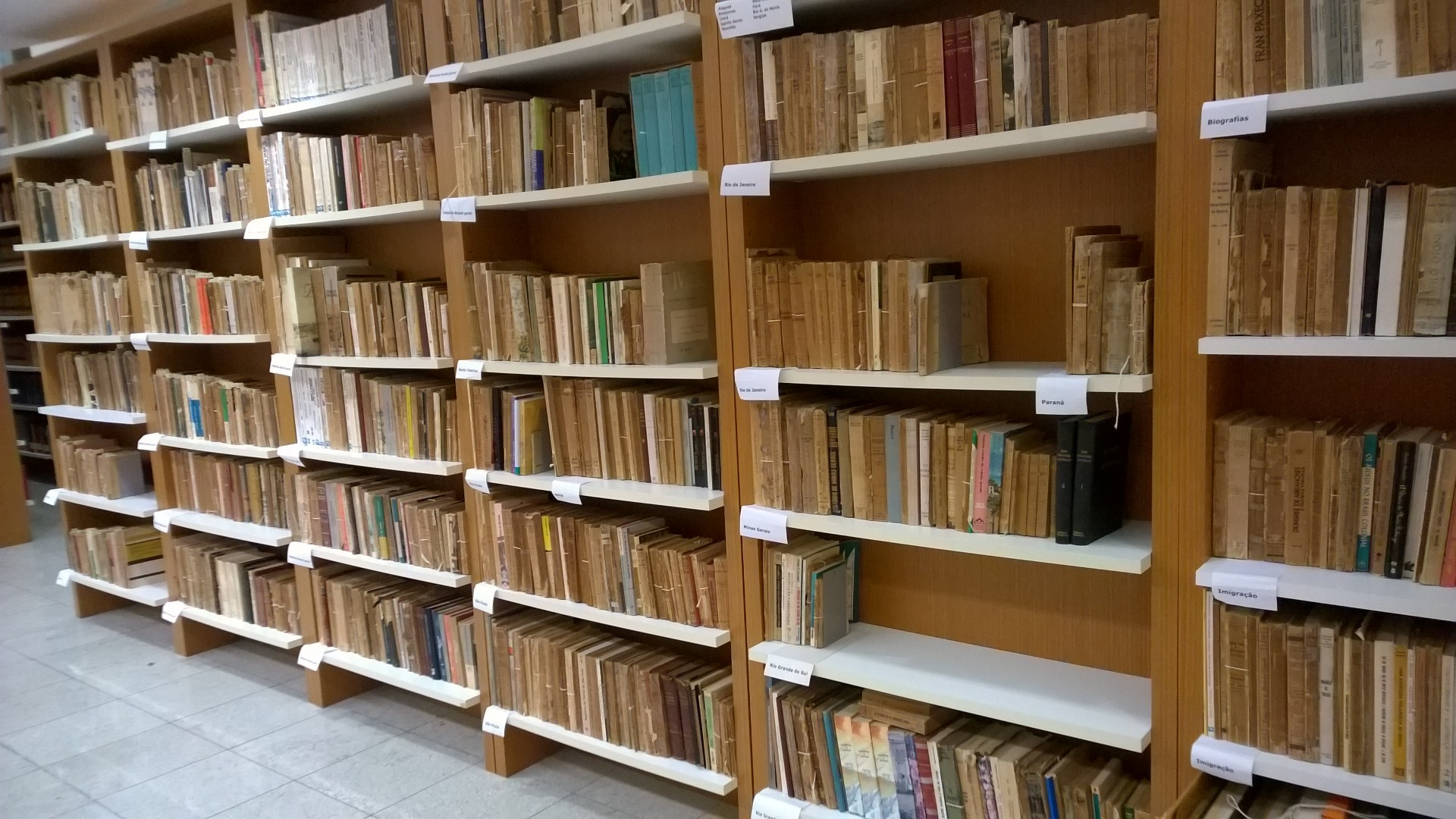 Parte do acervo de livros do instituto